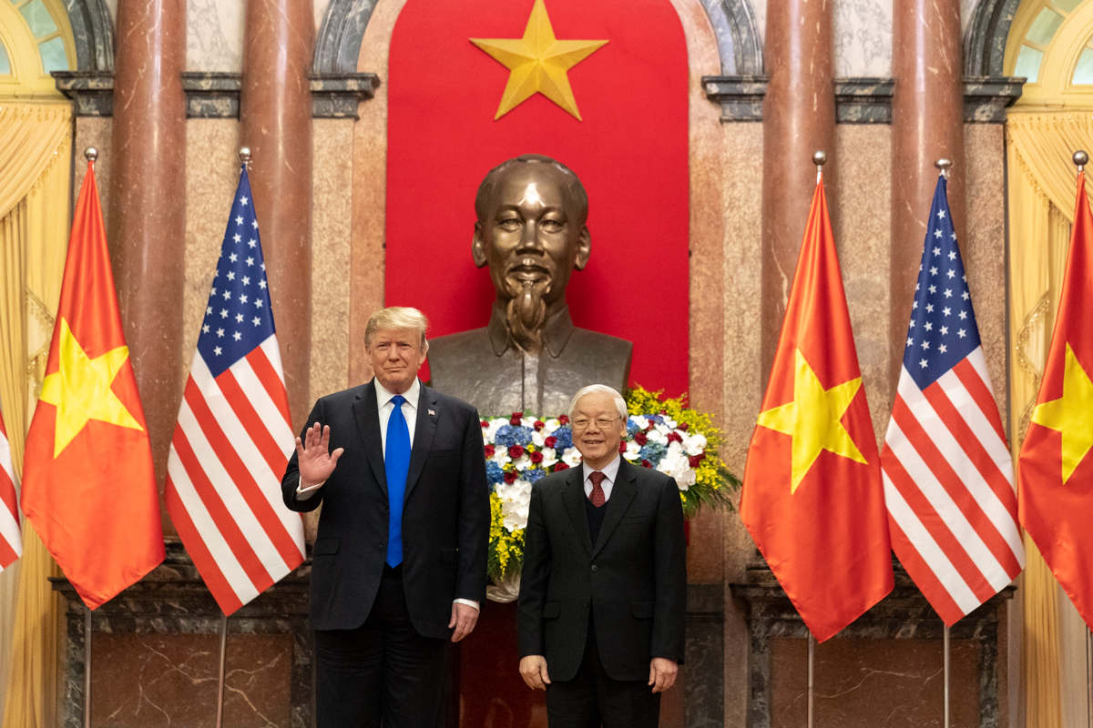 President Donald J. Trump and Nguyen Phu Trong, General Secretary of the Communist Party and President of the Socialist Republic of Vietnam, participate in a photo opportunity in the Mirror Room of the Presidential Palace Wednesday, Feb. 27, 2019, in Hanoi. (Official White House Photo by Shealah Craighead)